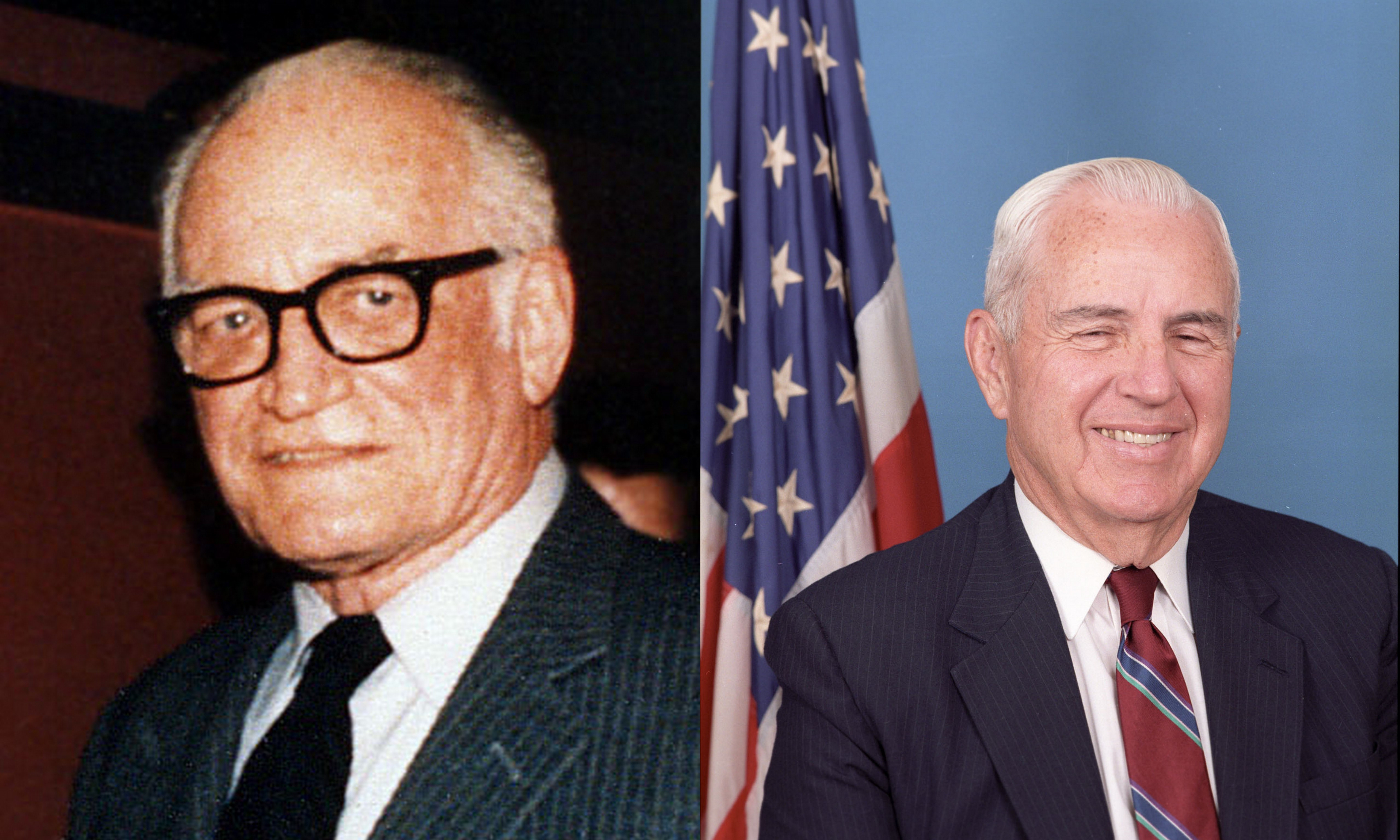 Barry Goldwater, U.S. Senator (AZ-R) Congressman William F. Nichols